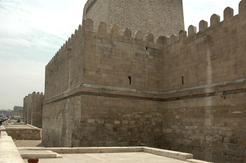 Fatimid walls. Cairo. Egypt